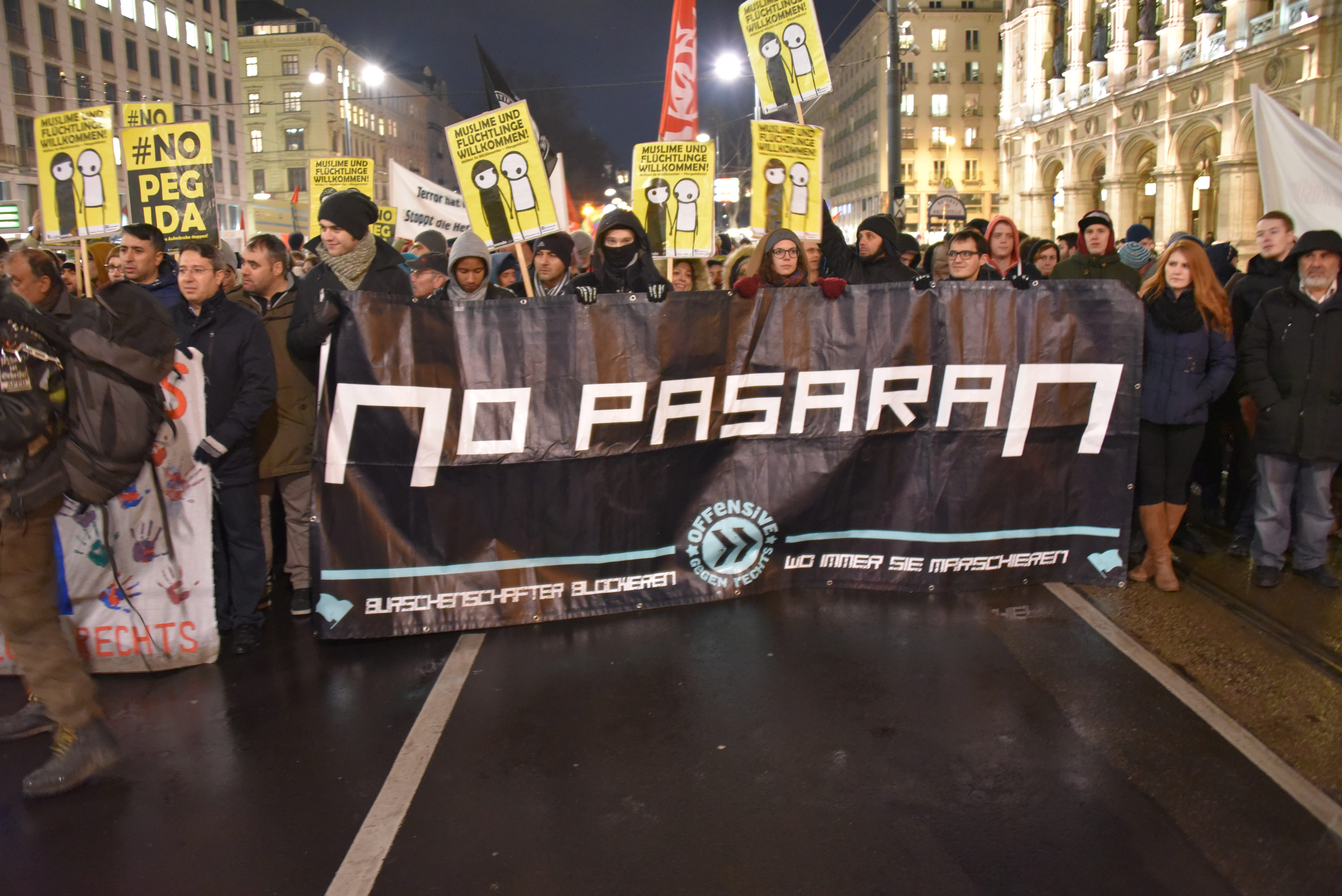 Offensive gegen Rechts demonstrating against Pegida in front of Vienna State Opera